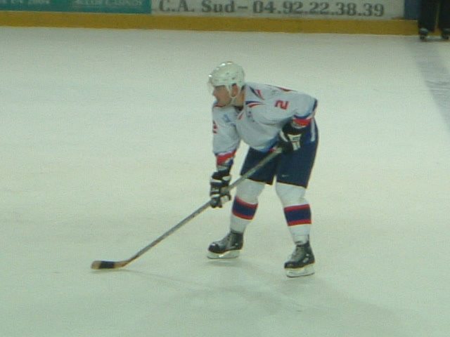 Allan Carriou, french ice hockey player. Euro Ice Hockey Challenge, 2003, Briançon, France.